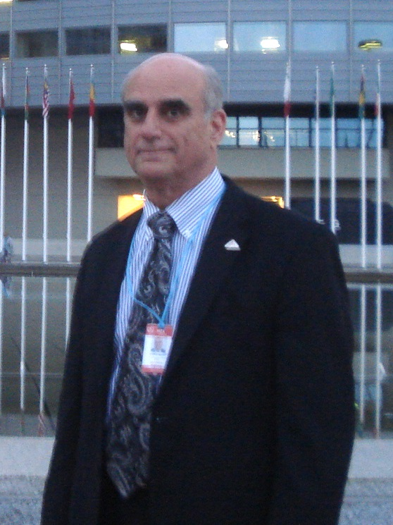 Stephen R. Connor, PhD of the Worldwide Hospice and Palliative Care Alliance (WHPCO) at the Global Summit on International Breast Health at the United Nations in Vienna, Austria, October 3-5, 2012. The conference was held in association with the IAEA (International Atomic Energy Agency) and PACT (Programme of Action for Cancer Therapy).